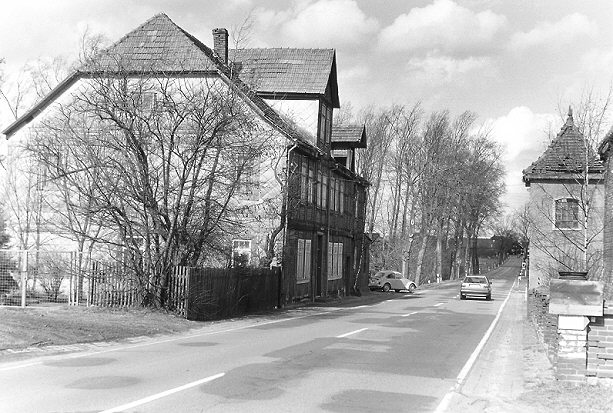 The Wippermühle water mill near Rühen-Brechtorf in Lower Saxony, Germany, 1986